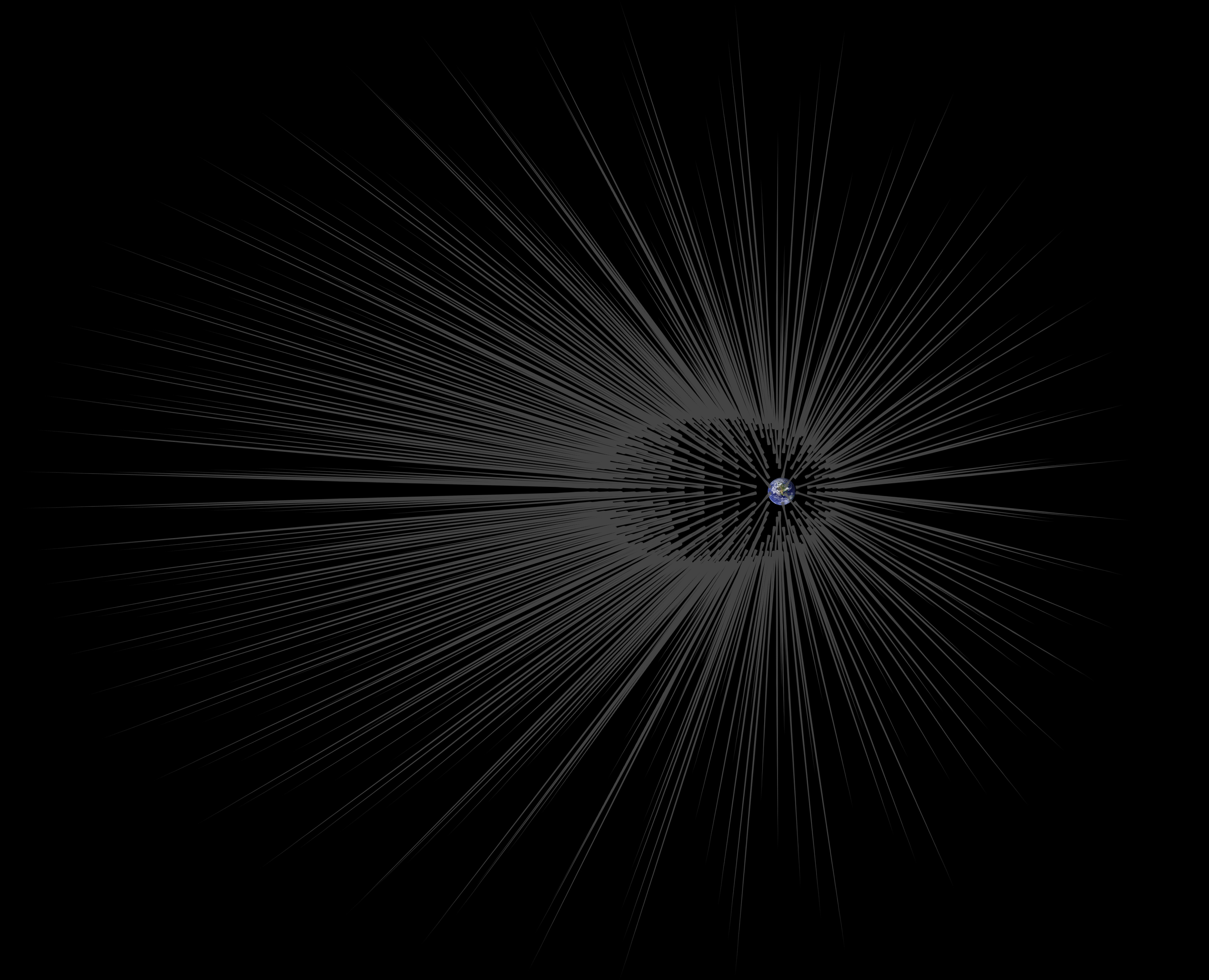 Earth surrounded by theoretical filaments of hairy dark matter.